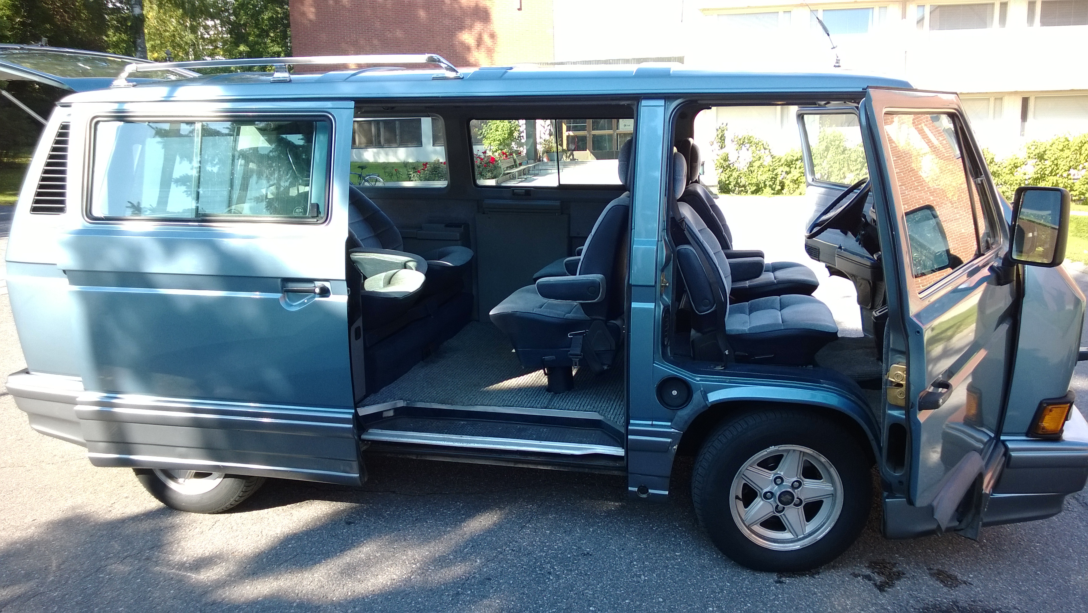 T3 Caravelle Carat 1986 original interior (2013), car is equipped with an Oettinger wbx6 3.7 engine, body kit etc.